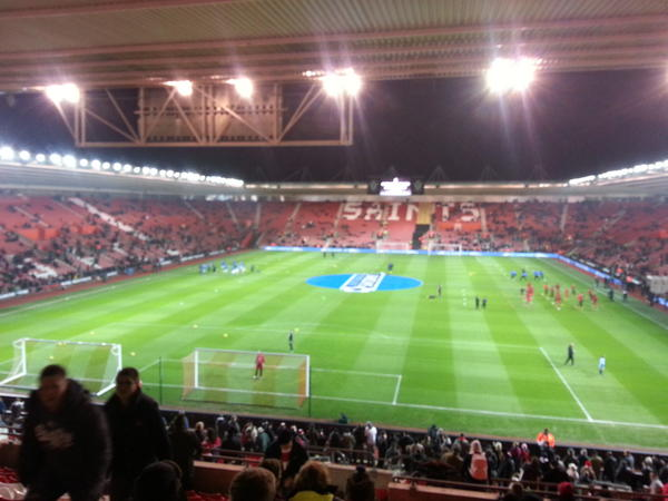 Southampton v Everton at St Mary's Stadium, 21st January 2013, Premier League